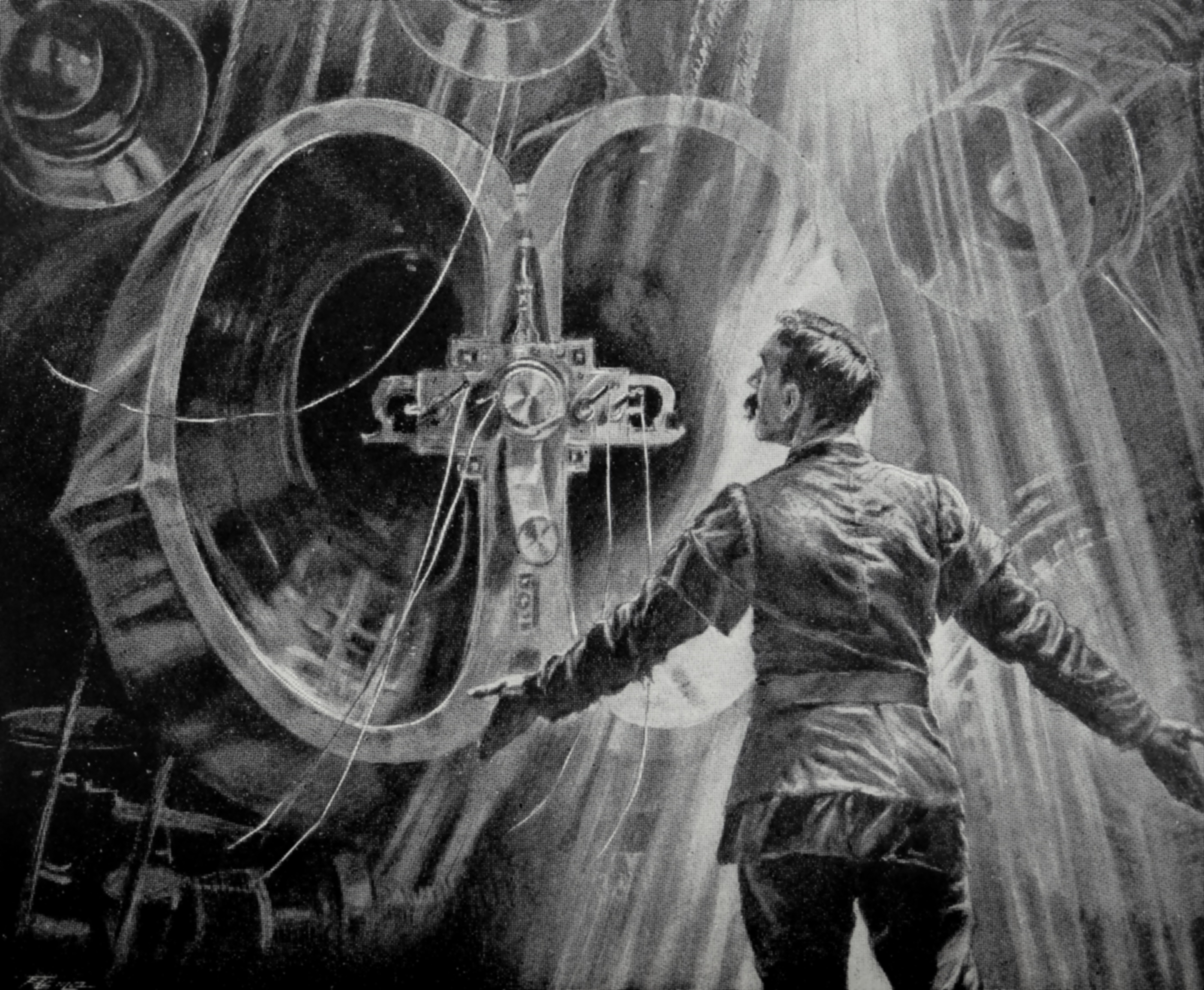 Graham addresses himself to the unseen multitudes." Art by H. Lanos for "When the Sleeper Wakes" by H. G. Wells (1899)